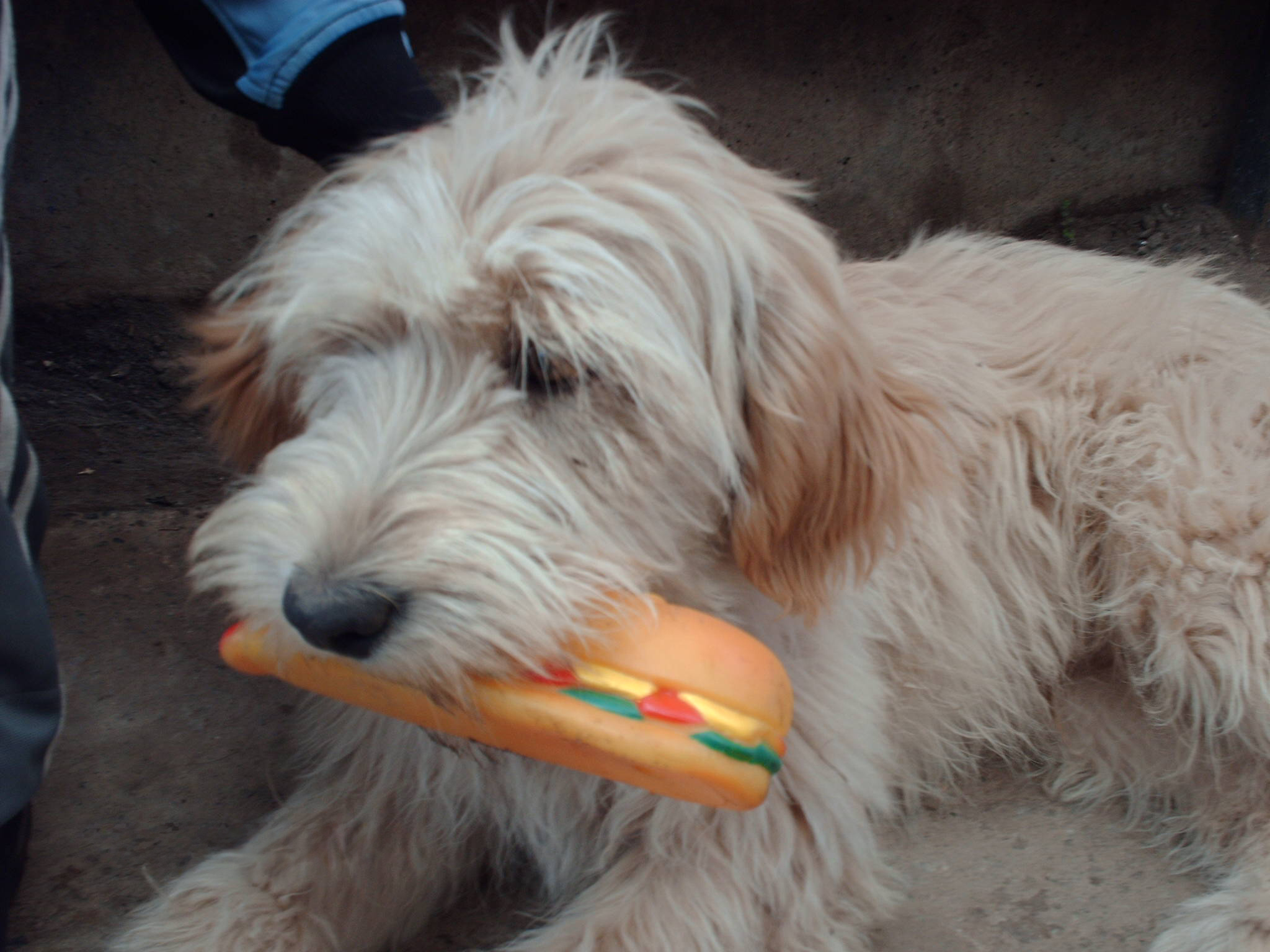 It is a dog very white